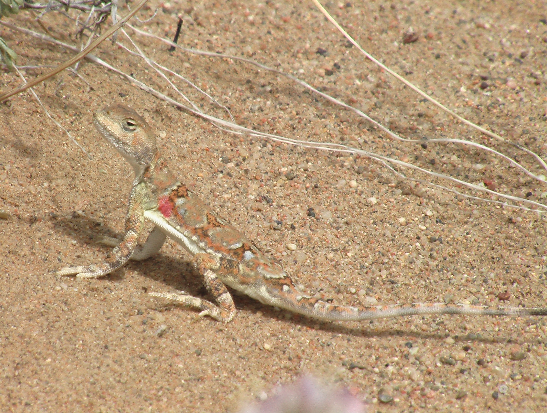 Phrynocephalus versicolor Strauch, 1876 in Baatsagaan sum, Bayankhongor province, South Mongolia